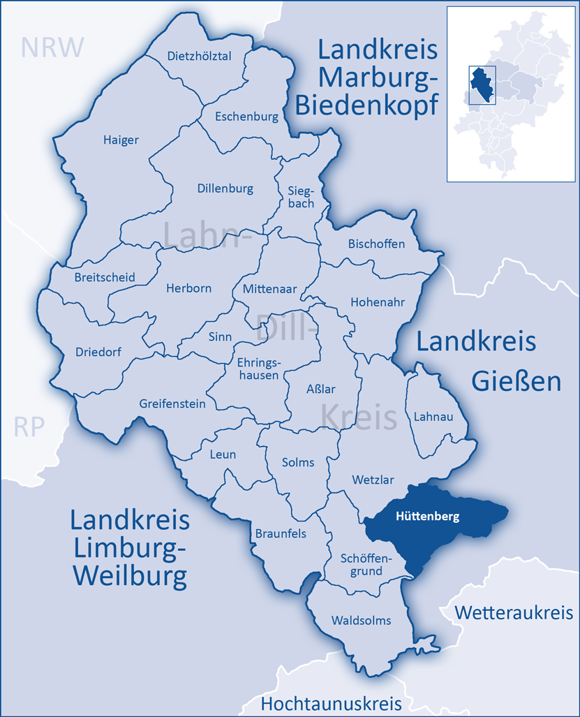 The map shows a district in the area of Lahn-Dill-Kreis